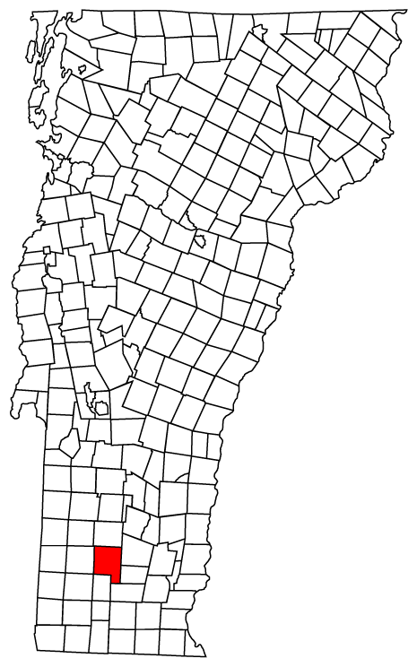 Description: Map of Vermont towns with Stratton highlighted Source: Map created by Jared C. Benedict on 26 March 2004. Copyright: © Jared C. Benedict.